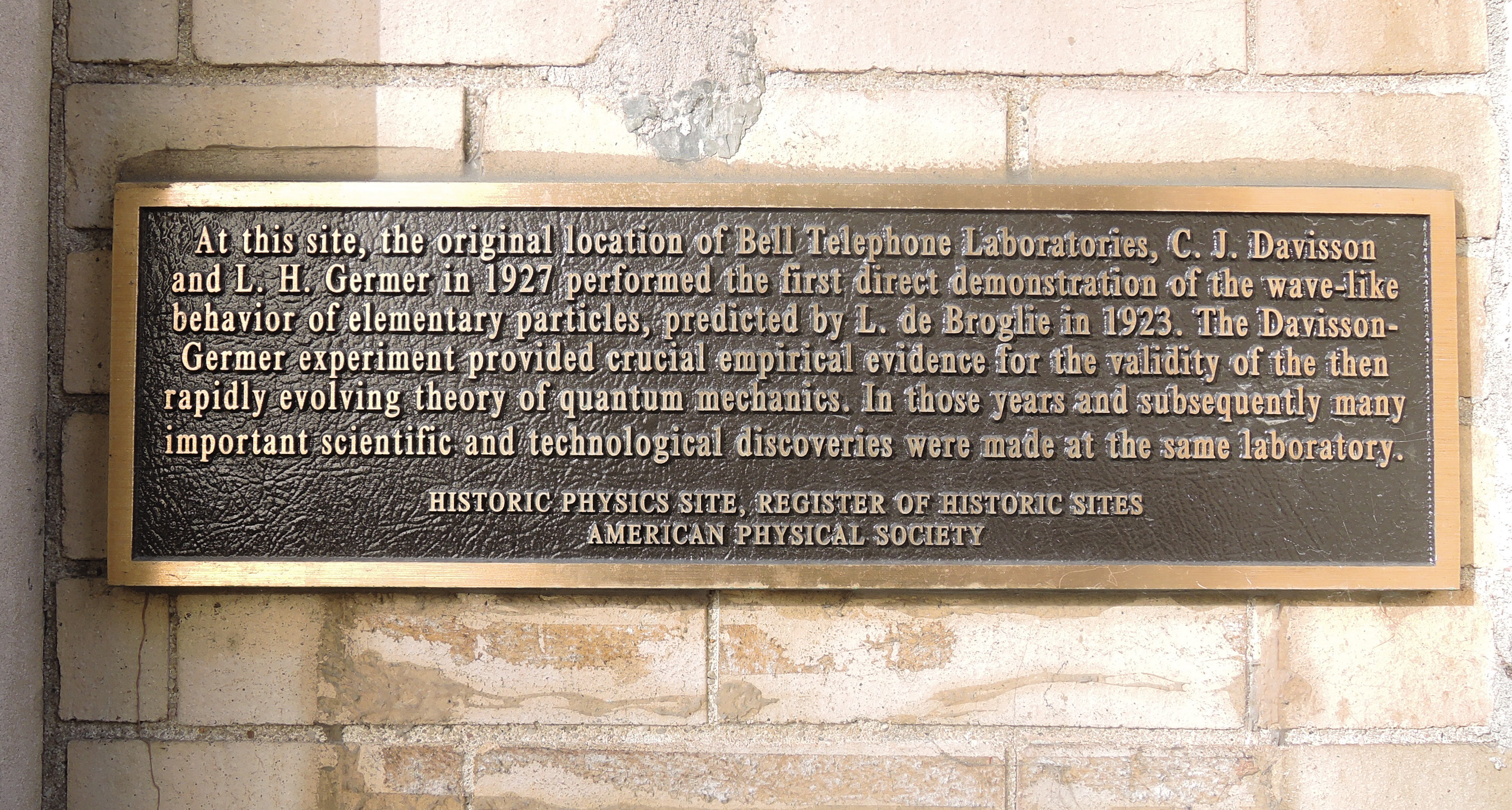 Looking south at plaque from American Physics Society, west of door.